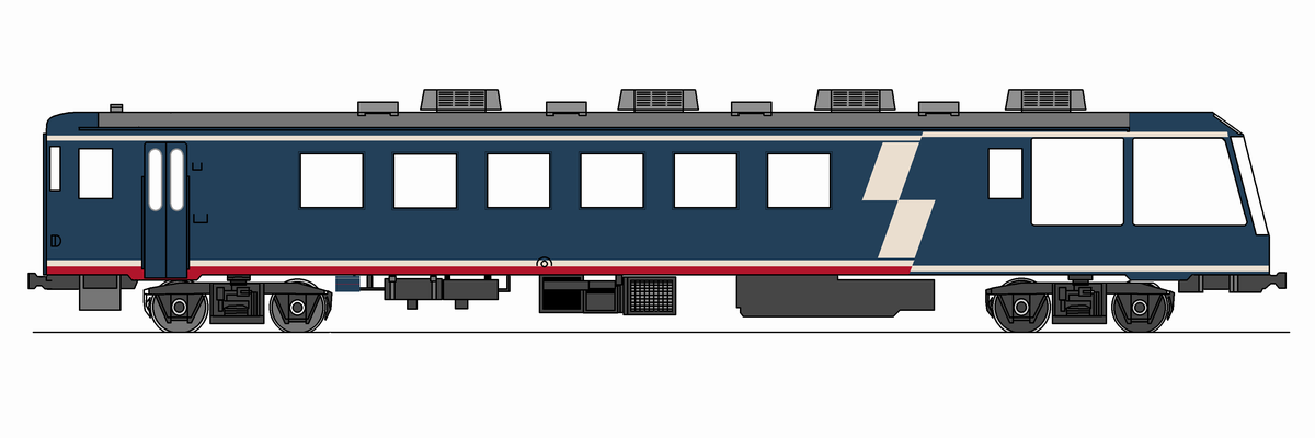 The side view of the Passenger Car(Brake_van) series 12 "Edo" of JNR.